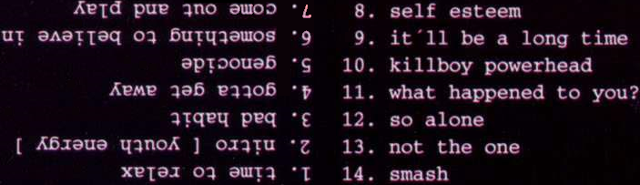 The back cover of the album "Smash" by The Offspring.